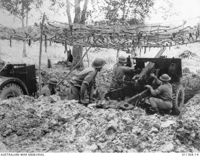 A 25 pounder Anti-Tank Gun crew of the 8th Australian Division, AIF, in a camouflaged position, preparing to open fire on approaching Japanese in Johore. This photograph also appears as negative no 068590.Place made Malaya: Johore, Muar Area, Bakri